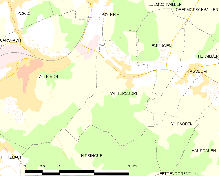 Map of French municipality